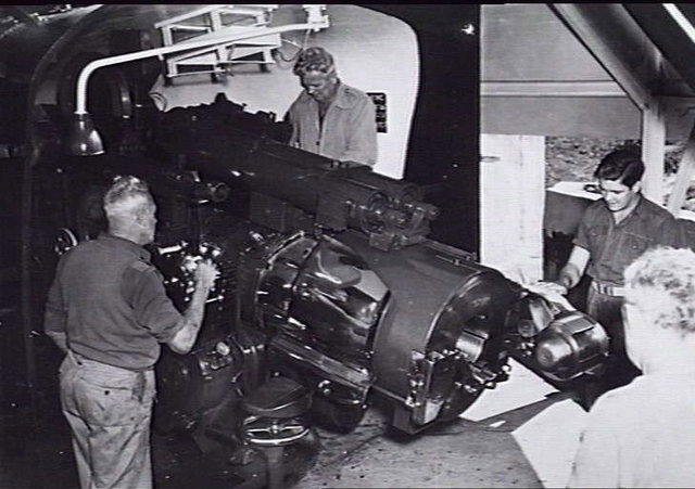 AWM caption : SOUTH HEAD, NSW. 1946-07-08. MEMBERS OF EASTERN COMMAND FIXED DEFENCES CLEANING ONE OF THE SIX INCH COASTAL ARTILLERY GUNS ON SIGNAL HILL.